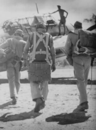 A US Marine TBF crew prepares for a mission over Rabaul, 1944